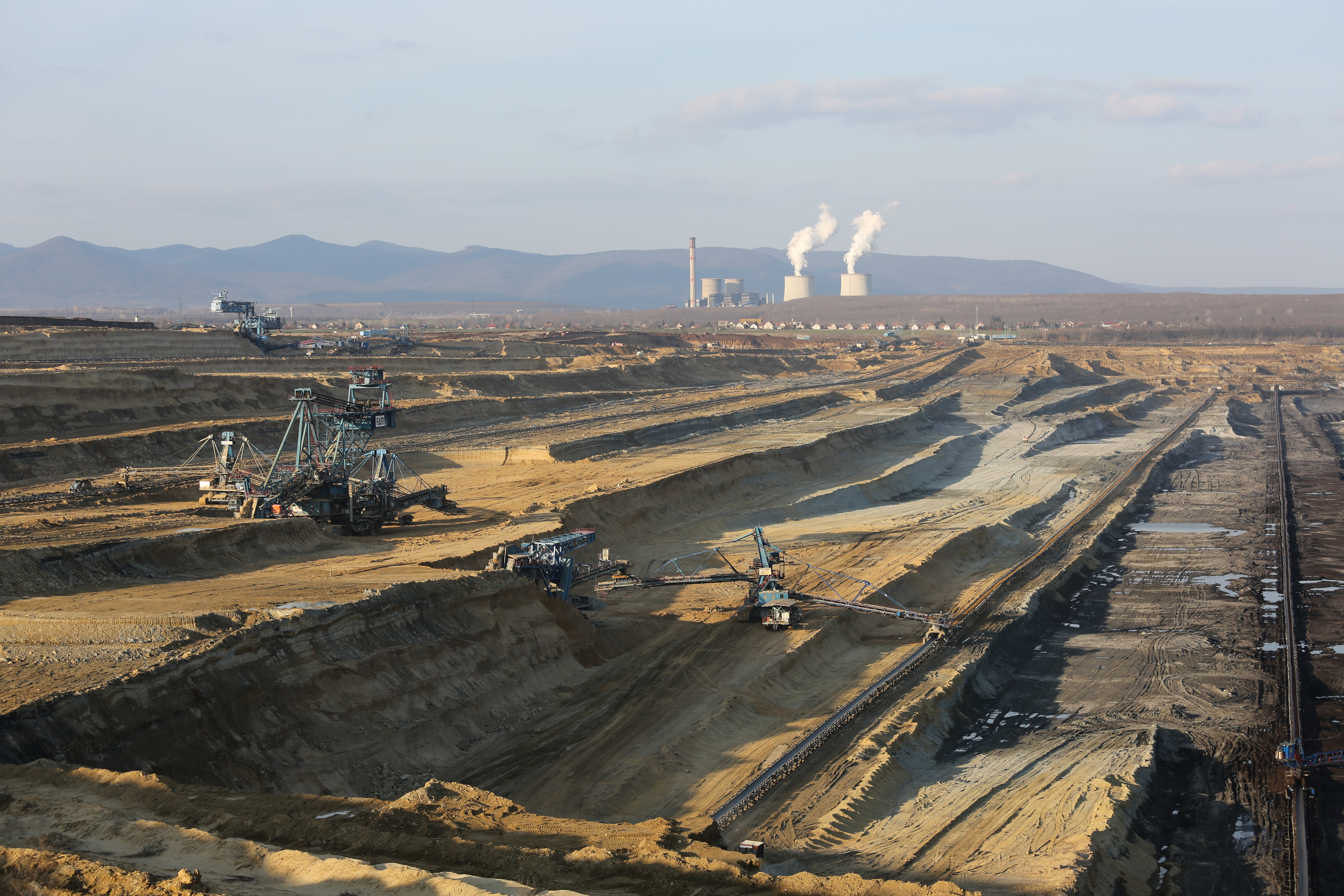 Extracting lignite from mines in Visonta